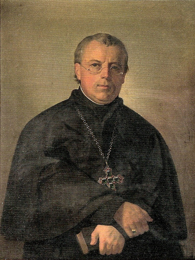 Adalbert Regli, abbot of Muri from 1838 to 1881